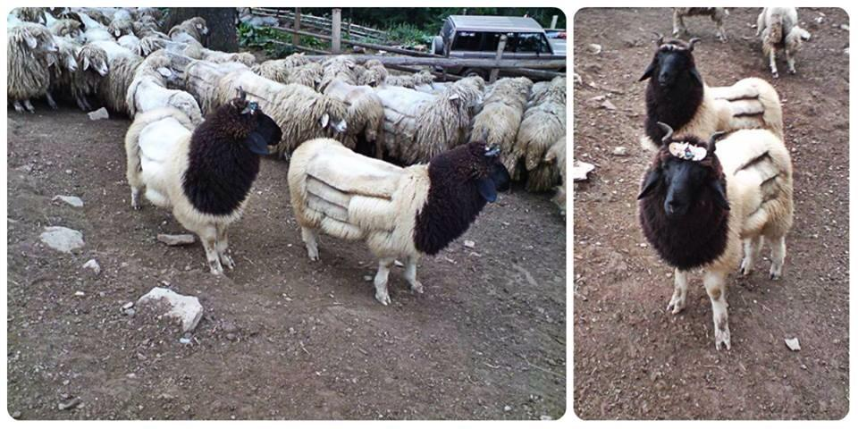 The kind of shearing which Kosovians make to their sheep